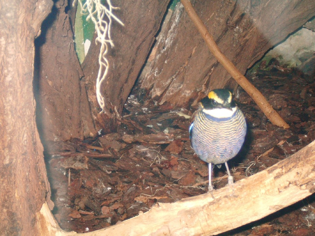 Banded Pitta photographed in Hagenbeck's Tierpark Hamburg, 2008-03-30